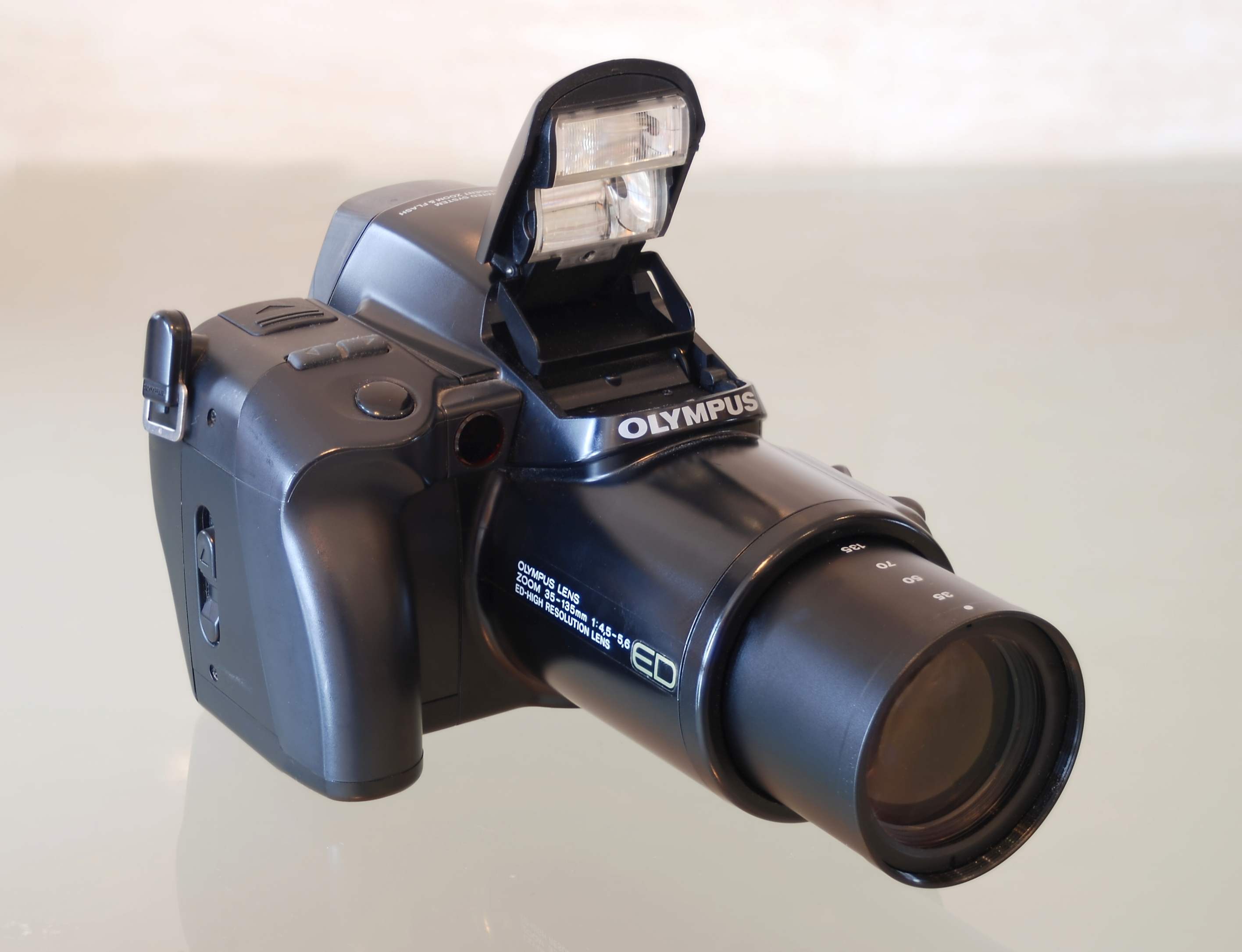 A Olympus IS 1000 analog camera (c. 1992)